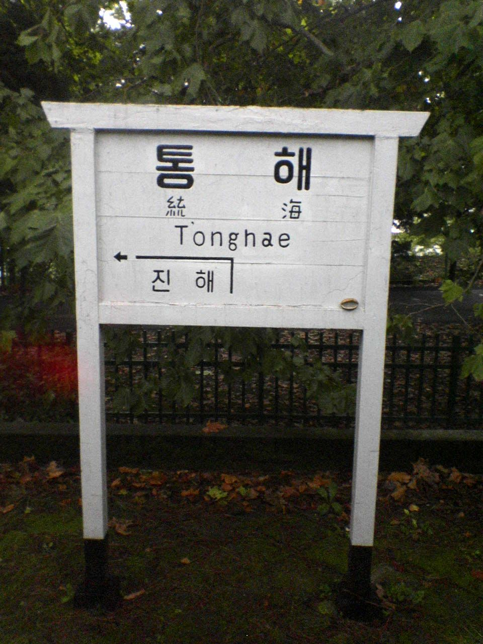 The train station name board of Tonghae-station, in Jinhae line, Gyeongsangnamdo, South Korea.